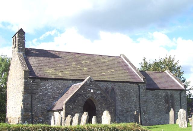 All Saints, Cellan. All Saints - Yr Holl Saint Church at Cellan